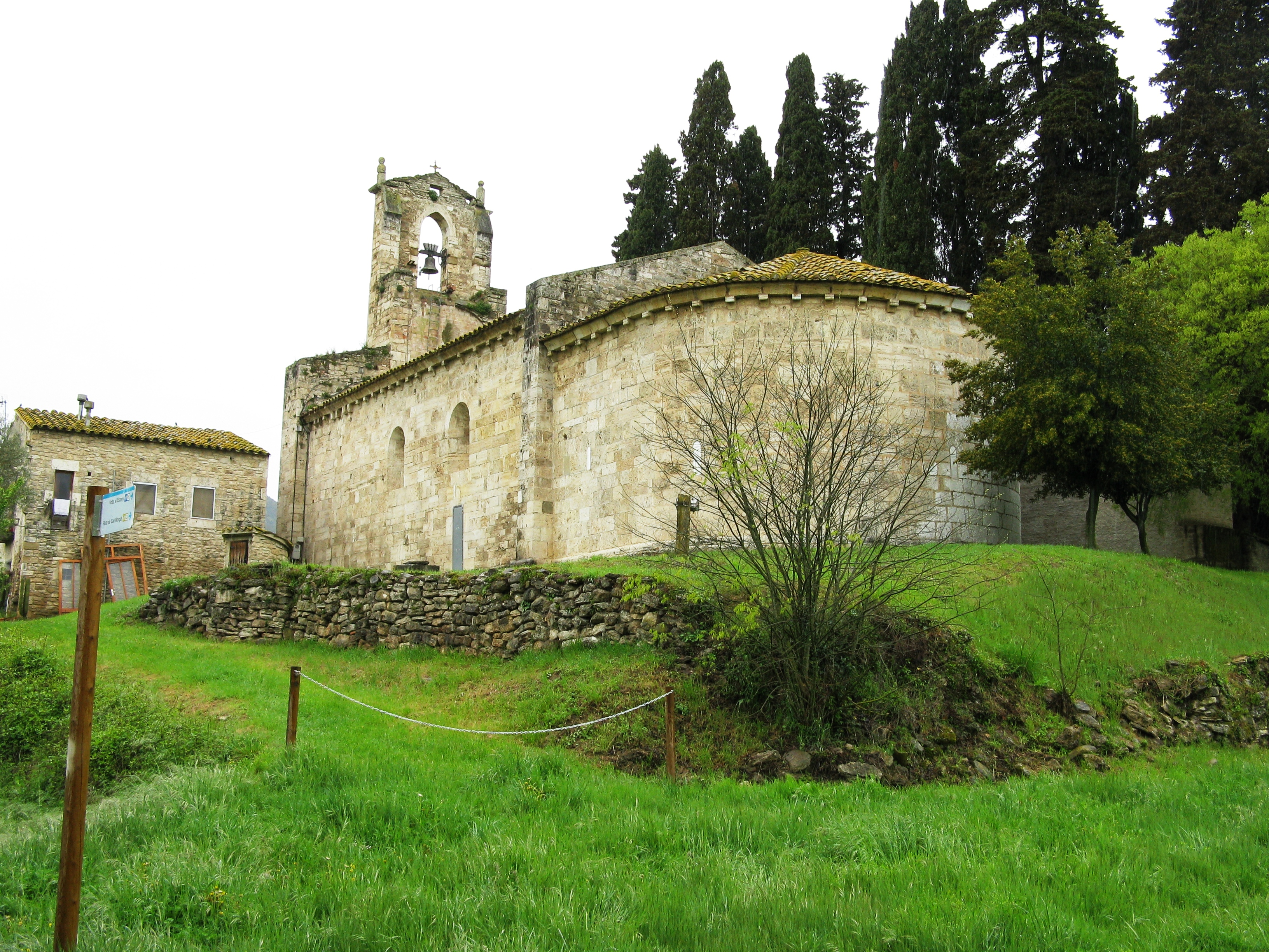 Romanesque church Santa Maria de Porqueres (12th century)